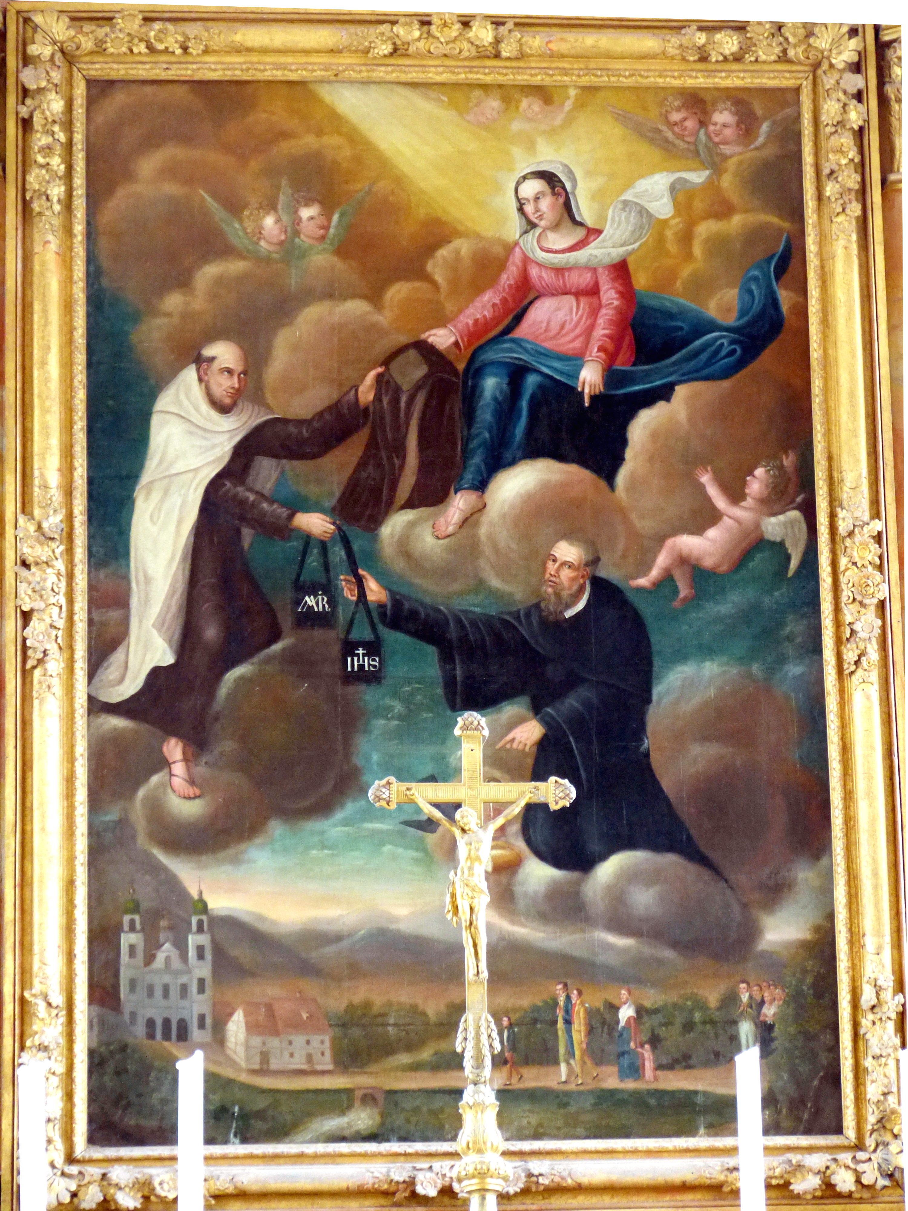 Ebersmunster ( Alsace ). Abbey church: High altar painting ( 1820 ) - Madonna giving the holy scapular to Saint Simon Stock.